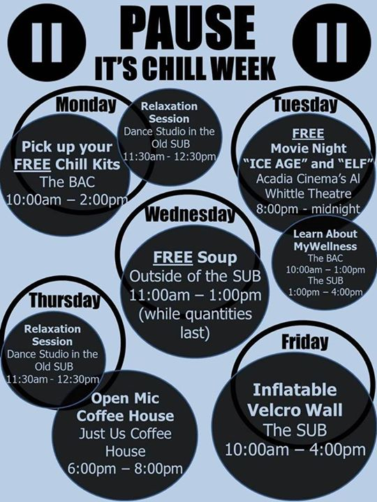 The poster design for Chill Week 2014, hosted by the Mental Health Society.